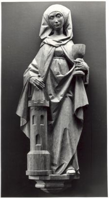 Maurer